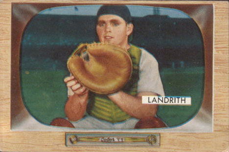 Major League Baseball catcher Hobie Landrith in 1955.